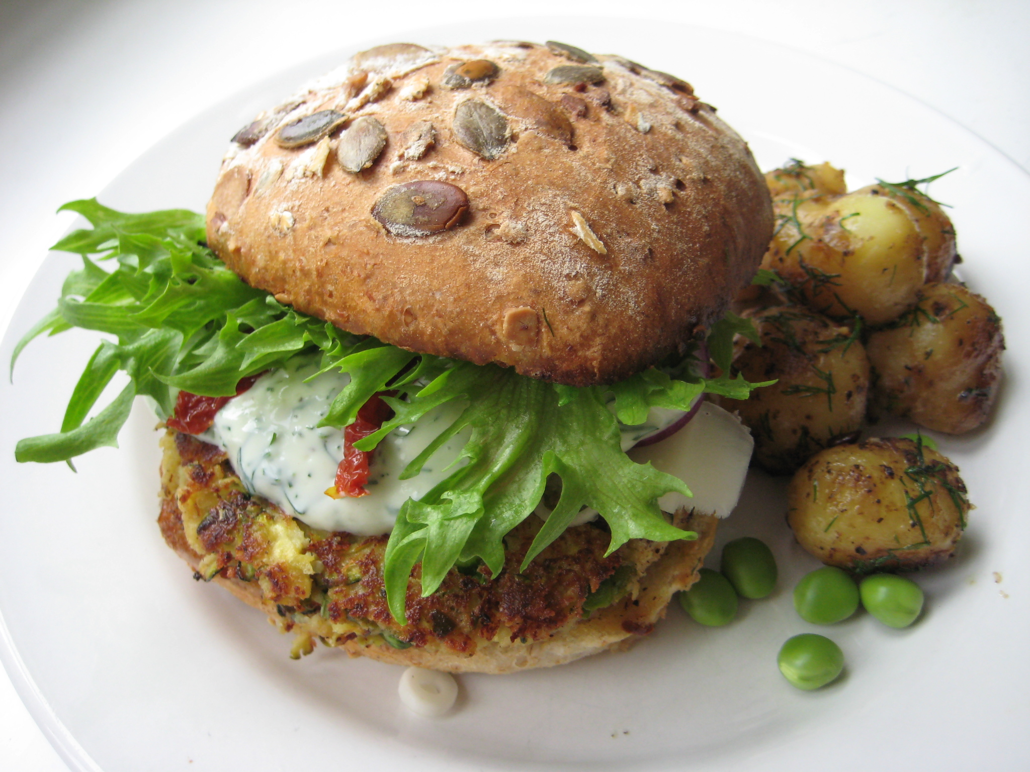 Veggie burger with zucchini/feta/pea patty.